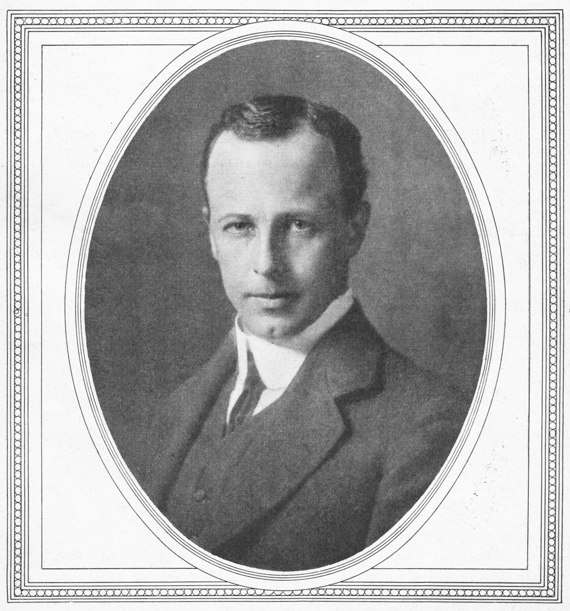 Architect Torben Grut, ca 1910